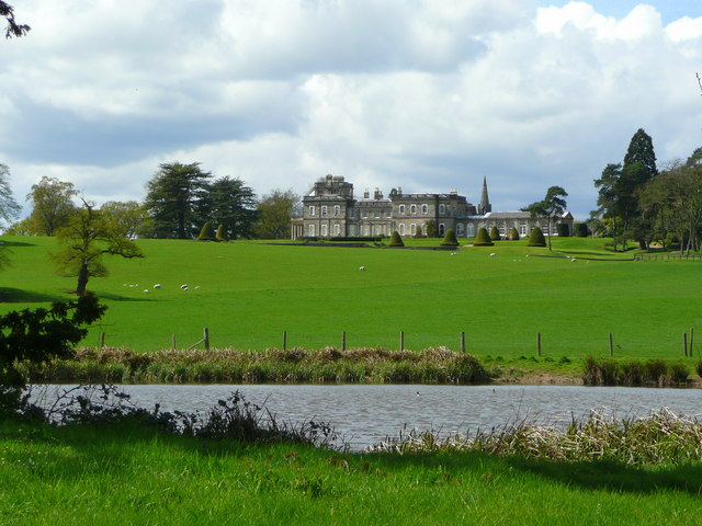 Dunstall Hall, near to Dunstall, Staffordshire, Great Britain. Viewed from Dunstall Road across The Lady Pond. This is a Grade II country house now used in the corporate/wedding function marketplace.